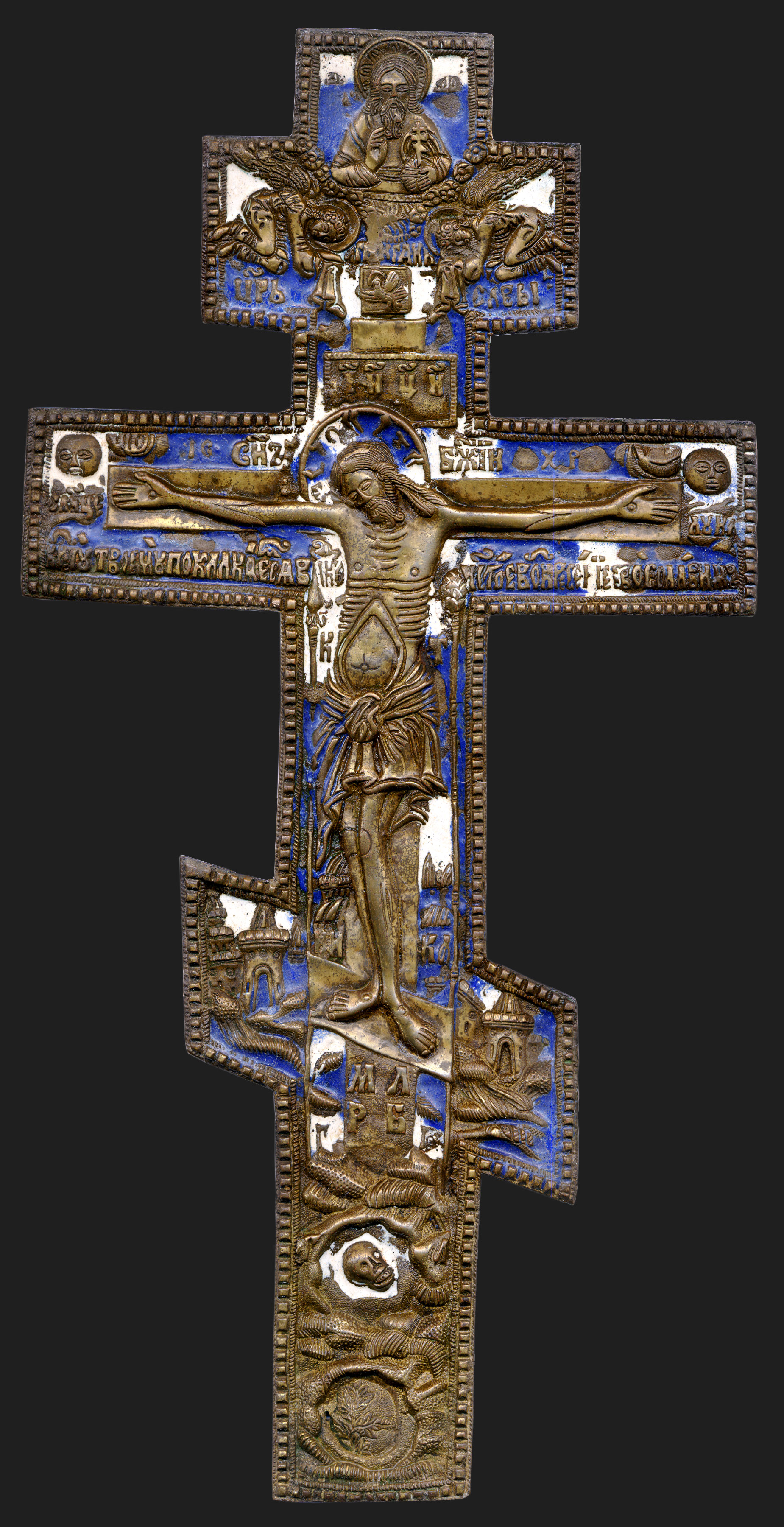 Russian crucifix, brass, 35 cm high